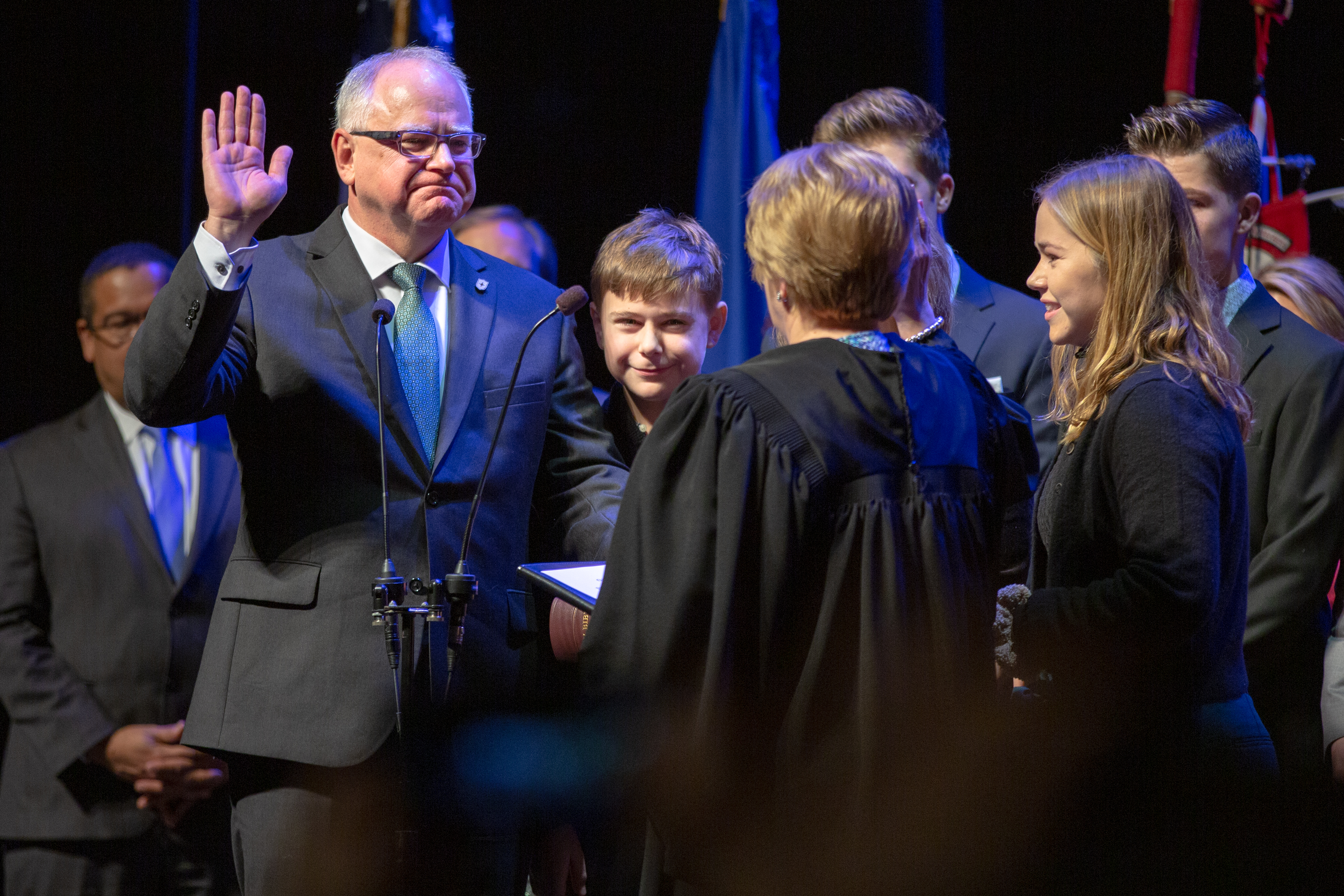 Tim Walz is sworn in as Minnesota's 41st governor at the Fitzgeral Theater in St Paul, Minnesota